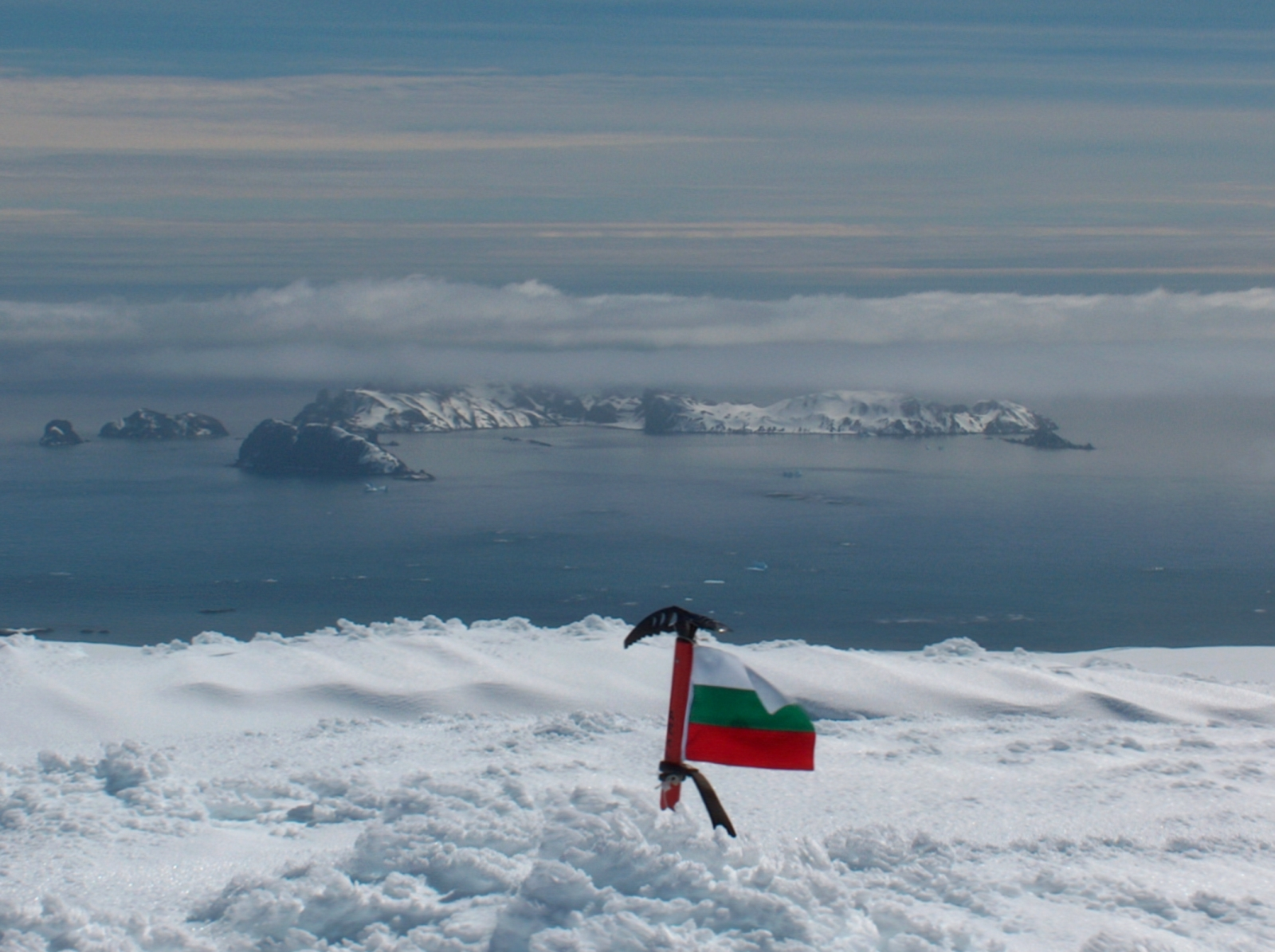 Desolation Island from Zemen Knoll in Vidin Heights on Livingston Island in the South Shetland Islands. Picture published by the author Lyubomir Ivanov.